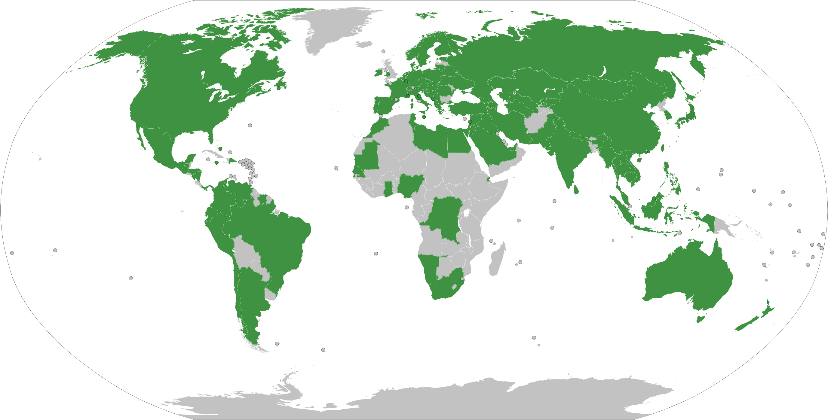 member nations of IeSF